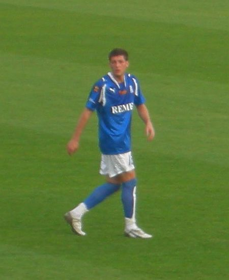 soccer player from Lech Poznań